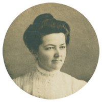 Photo of Annie Clemer Funk